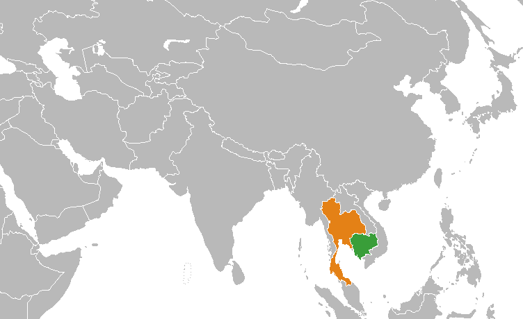 Cropped map of the world highlighting Cambodia in green and Thailand in orange, for the Cambodia-Thailand relations.